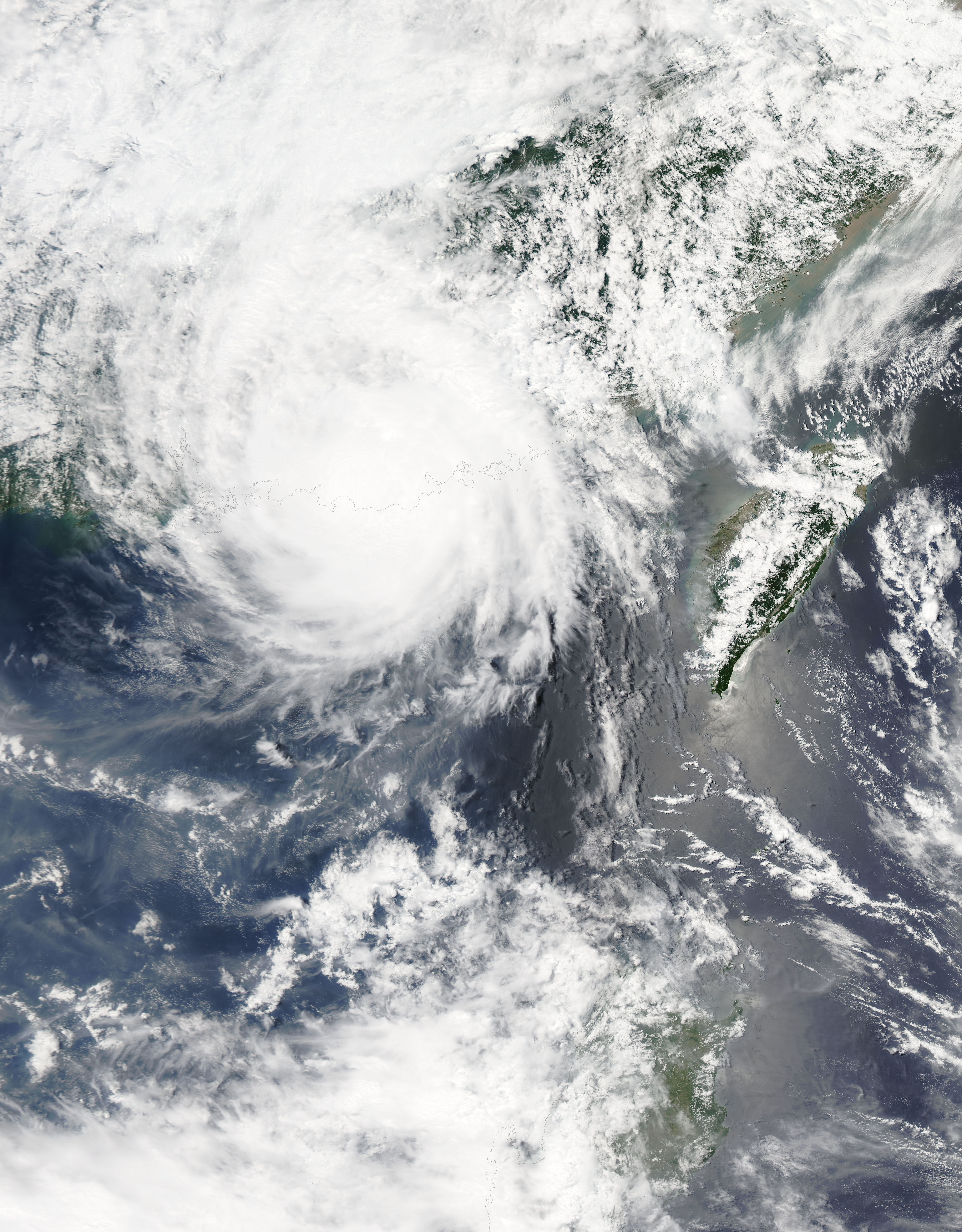 Severe Tropical Storm Linfa on July 9, 2015 and located east of Hong Kong.